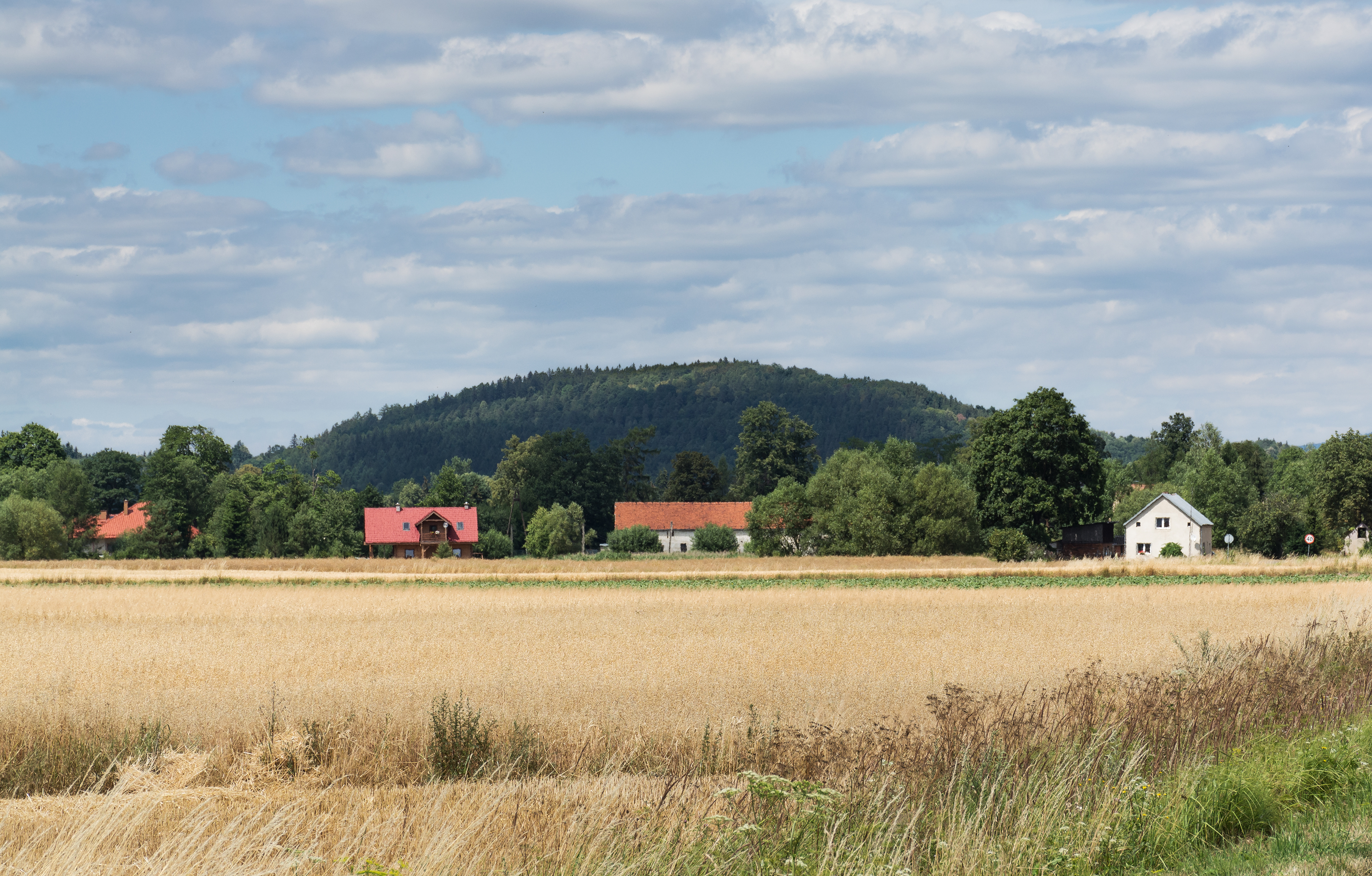 Czerwoniak, Bystrzyckie Mountains, Sudetes, Poland